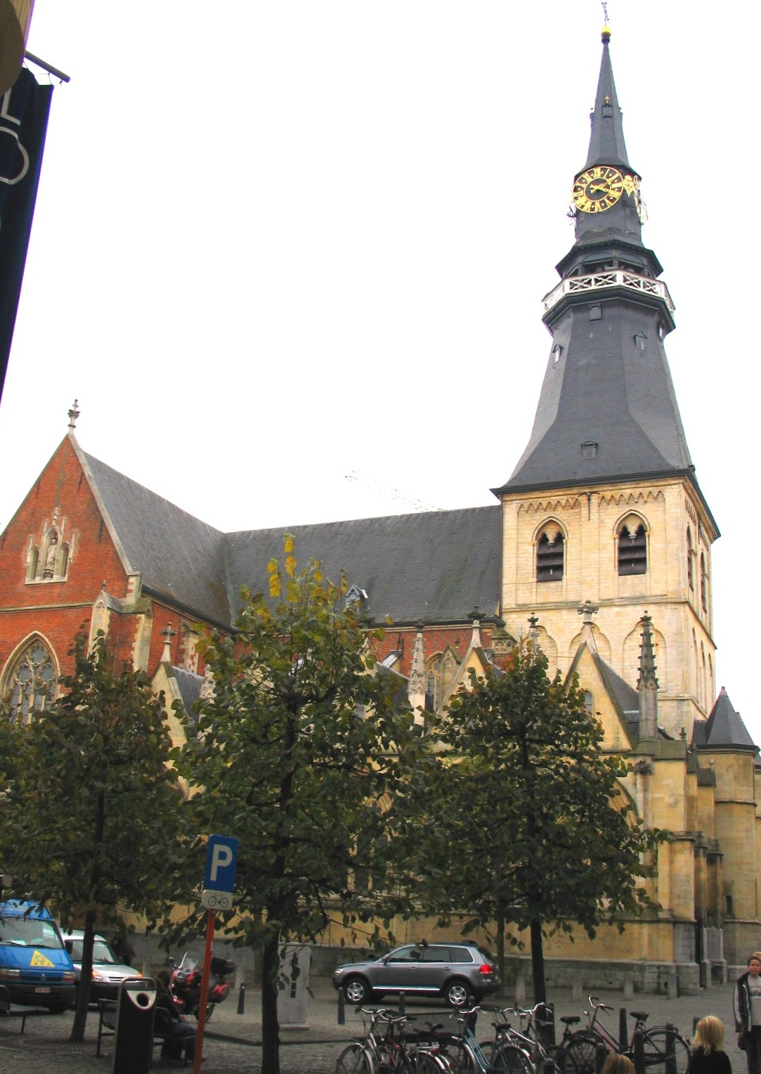 Sint-Quintinuskathedraal - eigen foto